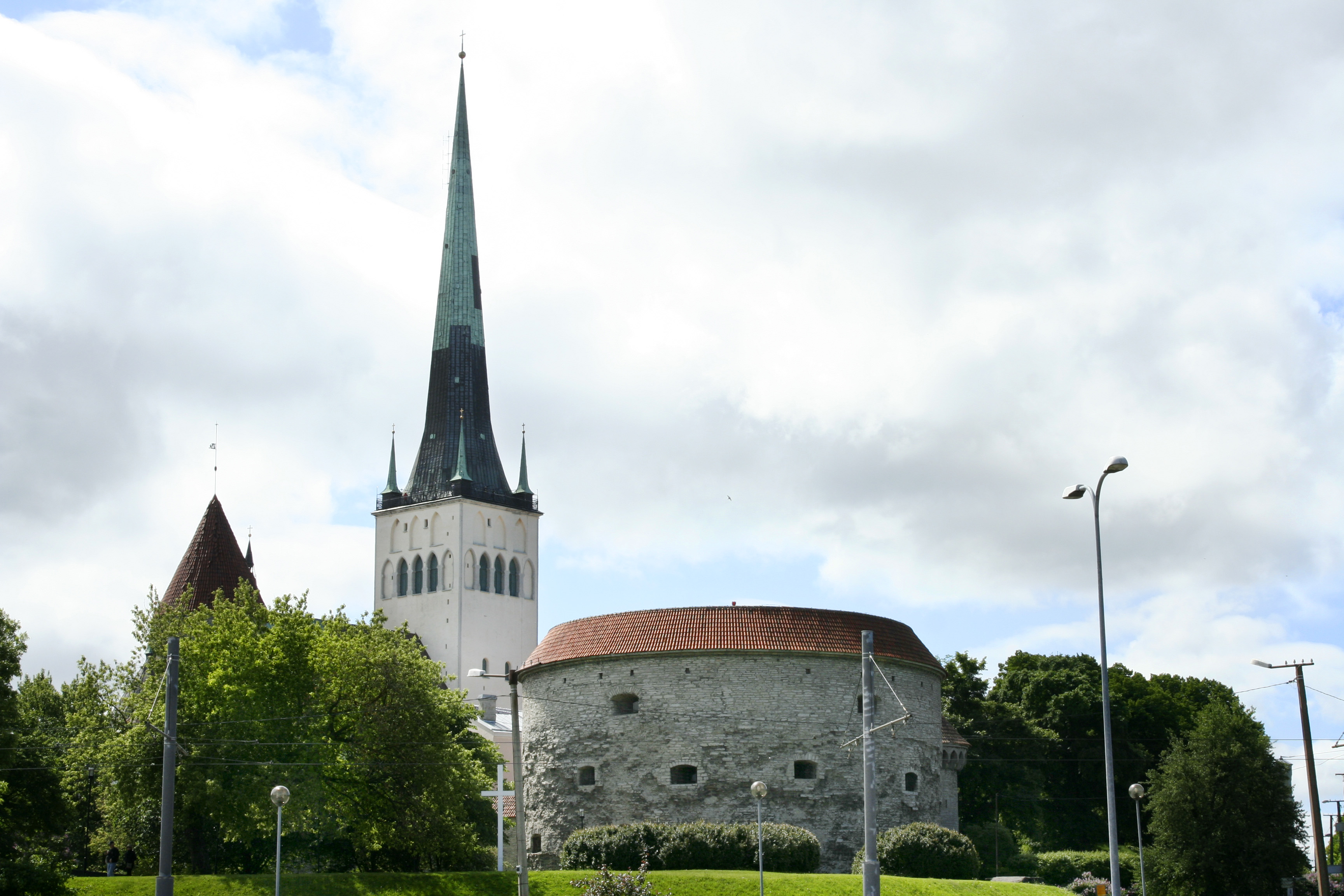 Oleviste kirik